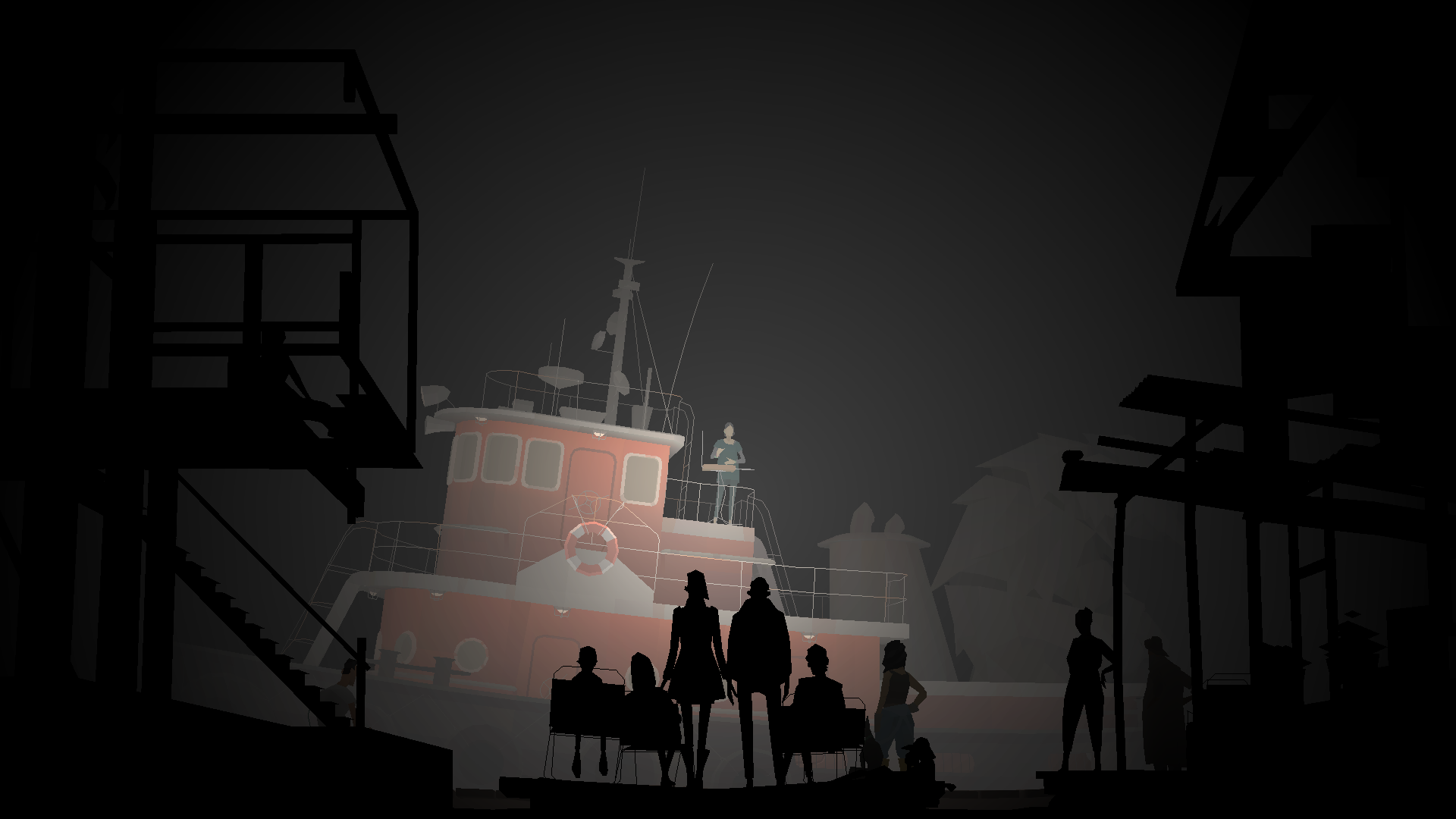 Screenshot of the game Kentucky Route Zero.